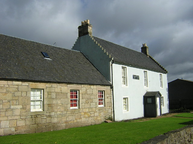 Hunter House Museum, East Kilbride. Birthplace of William Hunter (23 May 1718) and John Hunter (13 Feb 1728), pre-eminent in medicine and in surgery.